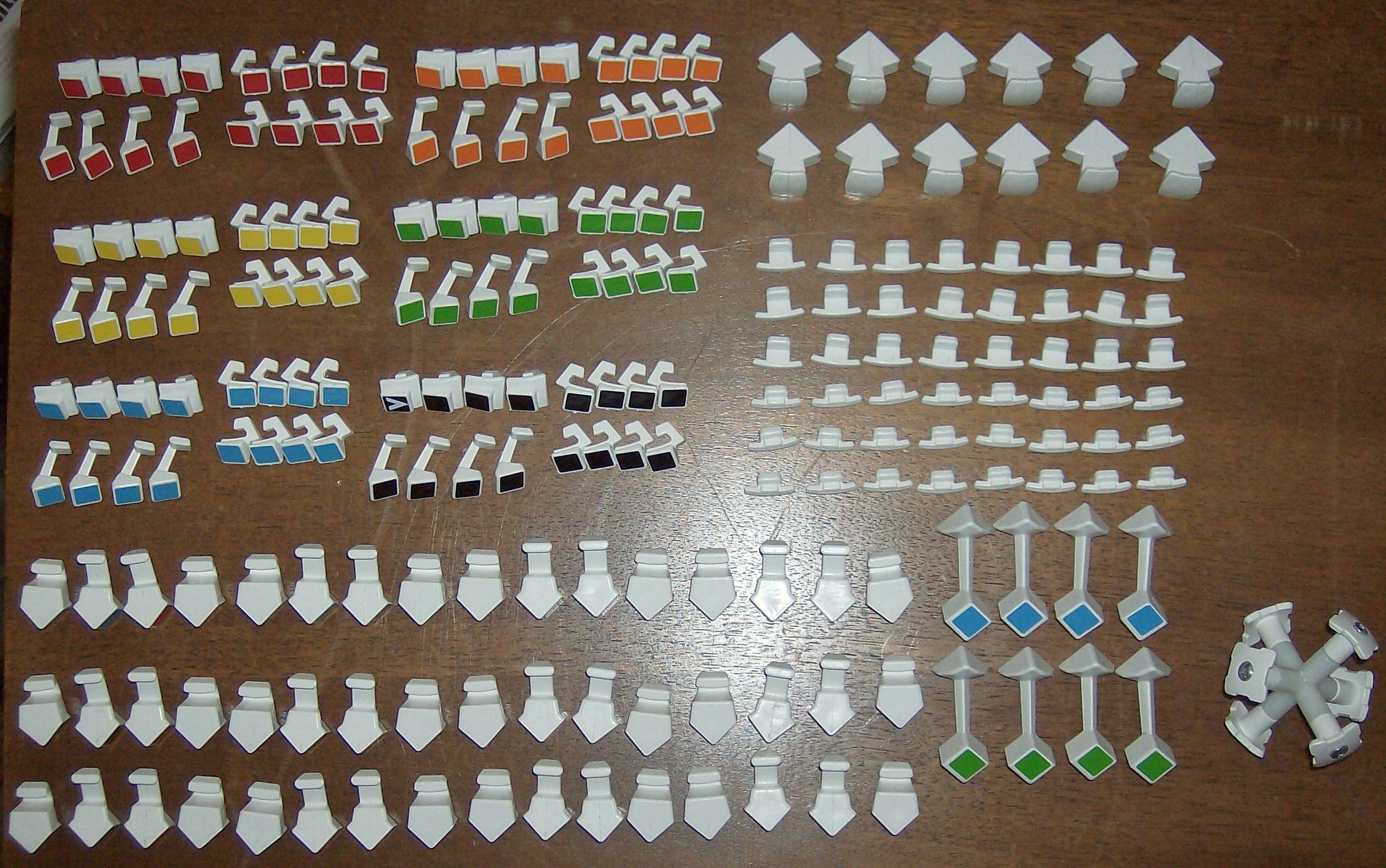 The large number of parts that make up a V-Cube 6. This puzzle has a fixed skeleton like the 3×3×3, 5×5×5 and 7×7×7 but it is completely hidden when the puzzle is assembled. There are 60 more hidden pieces that are not fixed in place, and 152 visible pieces.